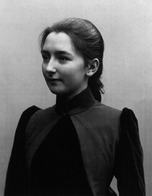 Aino Järnefelt, who later married Finnish composer Jean Sibelius